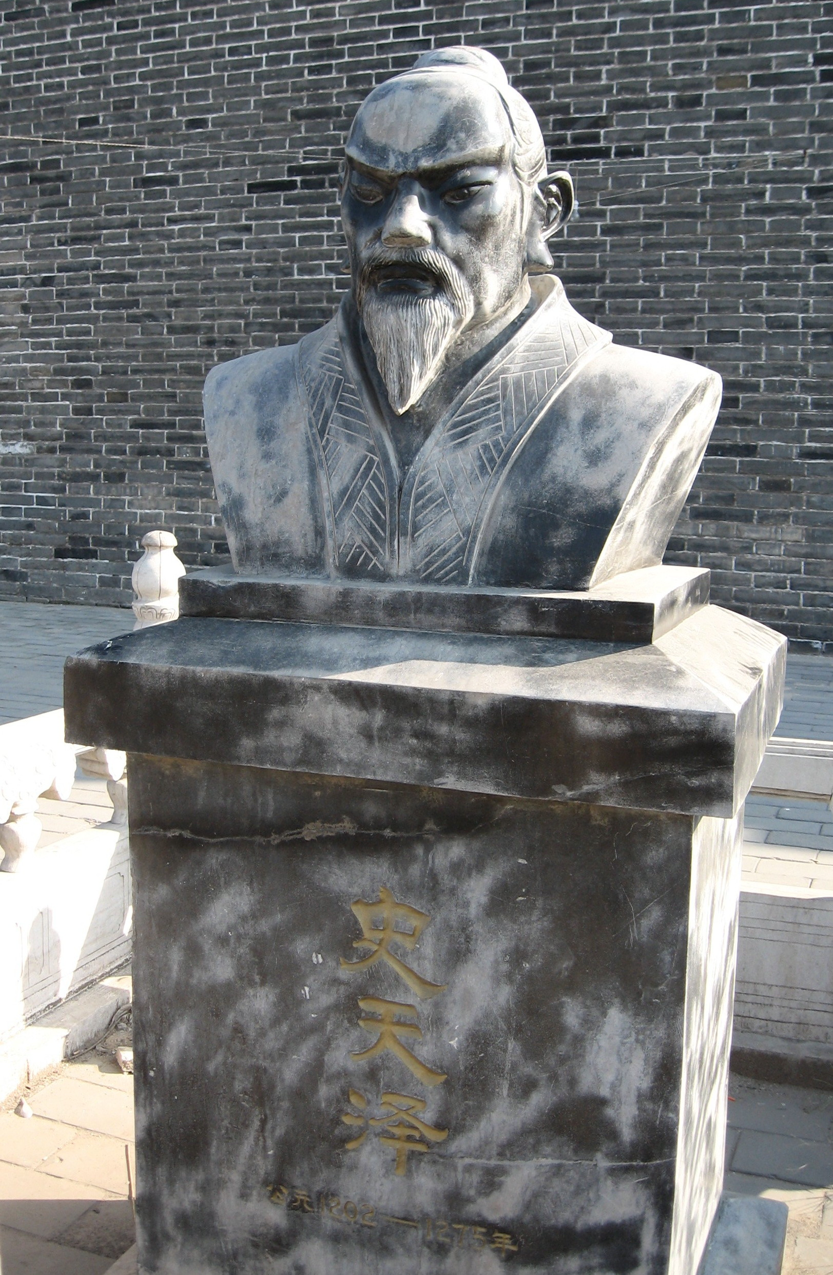 A statue of Shi Tianze.中国河北省正定县南城门（长乐门）内的史天泽雕像。